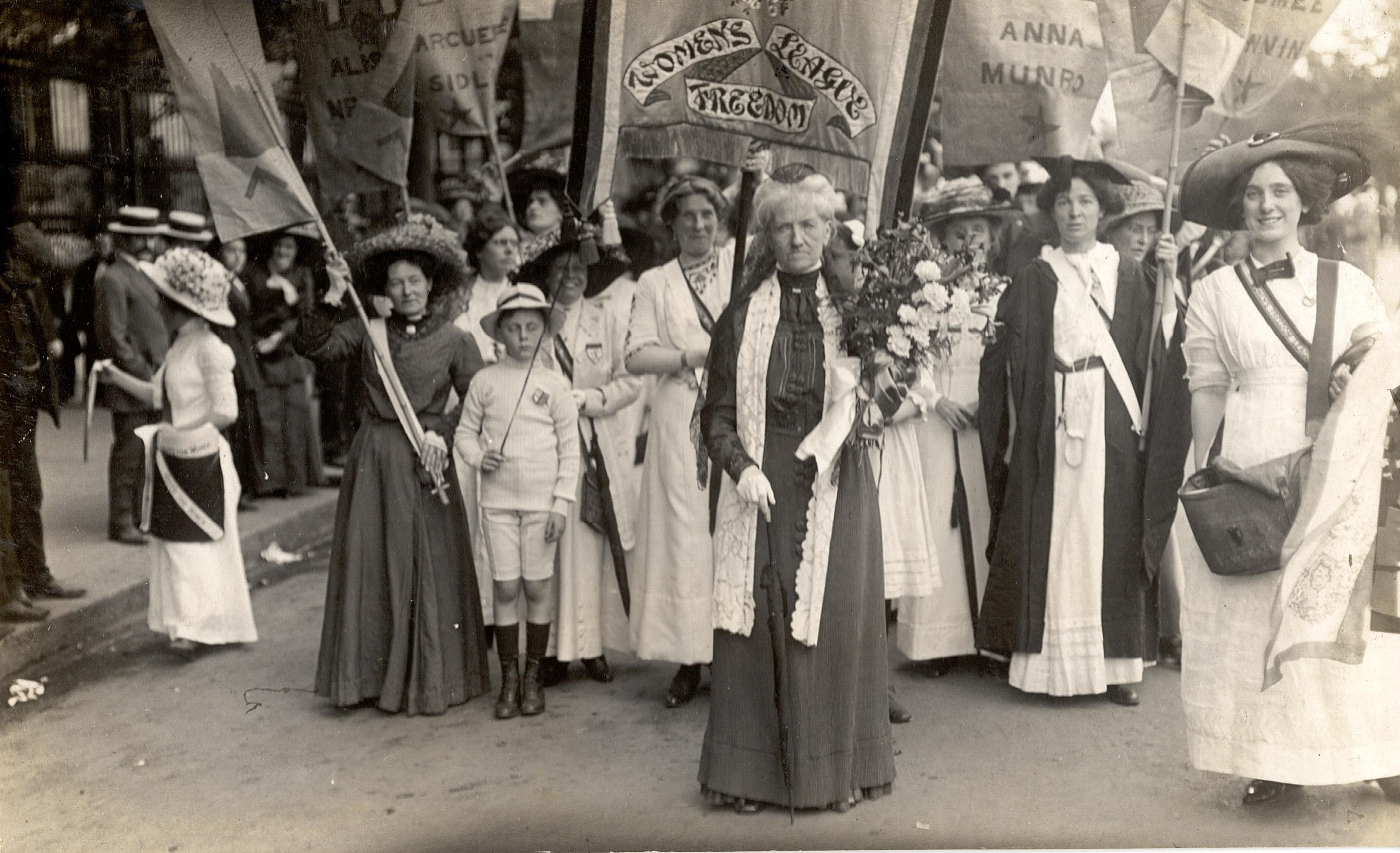 Women's Coronation Procession on 17 June 1911 - Charlotte Despard in front with Women's Freedom League banner behind twl 2002 531